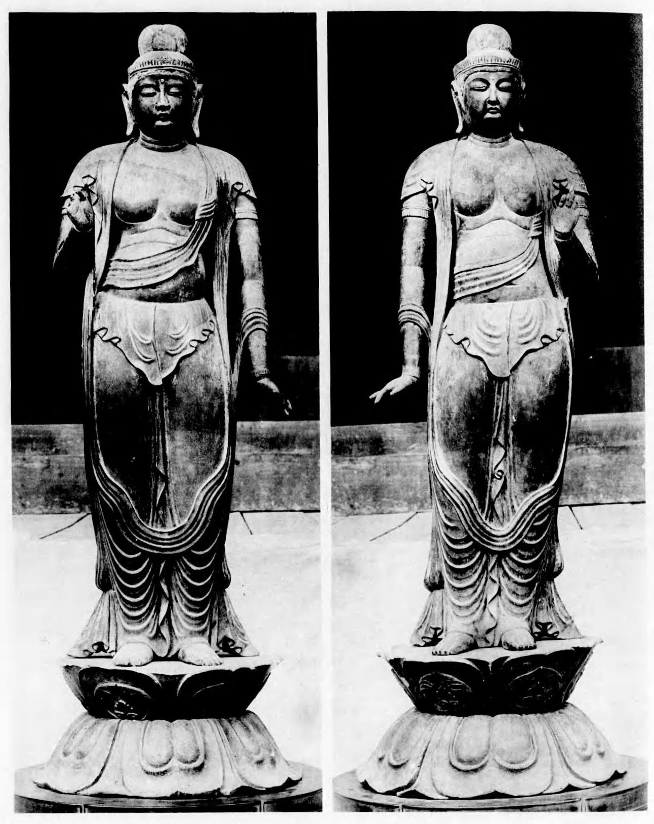 Statues of nikko bosatsu and gakko bosatsu at Shojo-ji, Yukawa, Fukushima. National treasures of Japan.